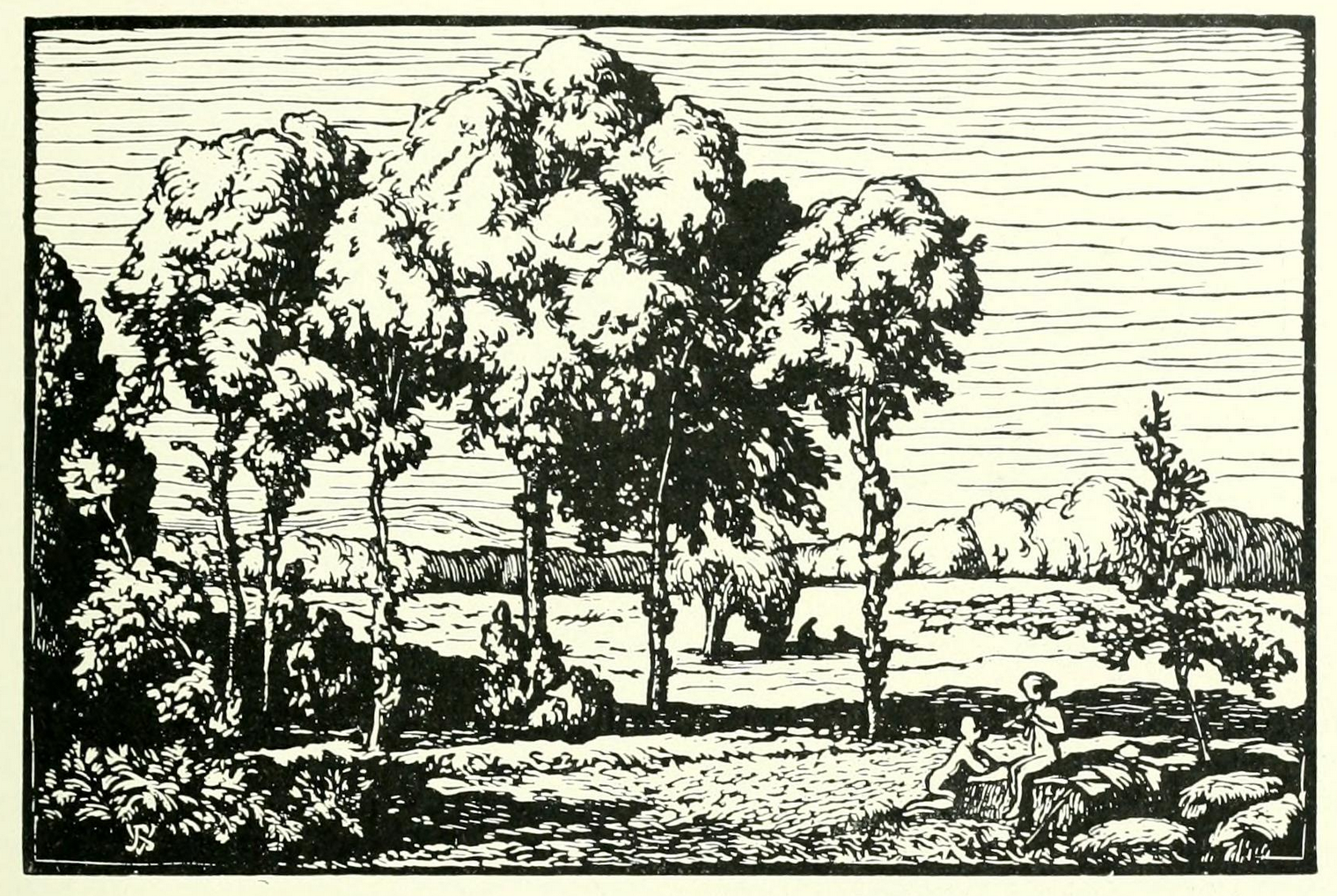 La Flute, wood engraving by Vettiner, reproduced in Art et Décoration.